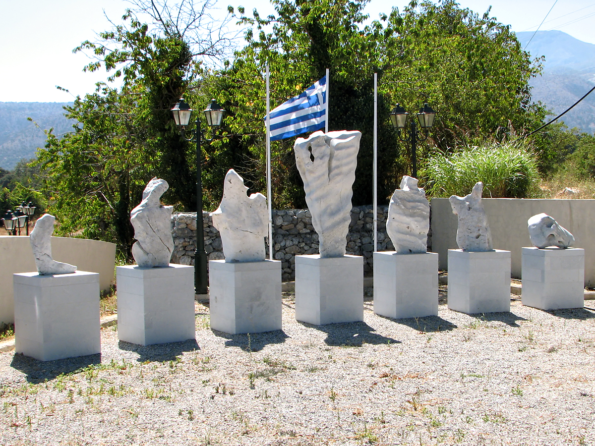 Monument commemorating the battle and desctruction of Lassithi by Ottoman and Egyptian forces in May 1867.